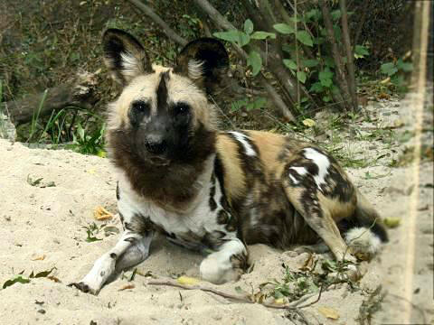 African Wild Dog at Bronx Zoo.